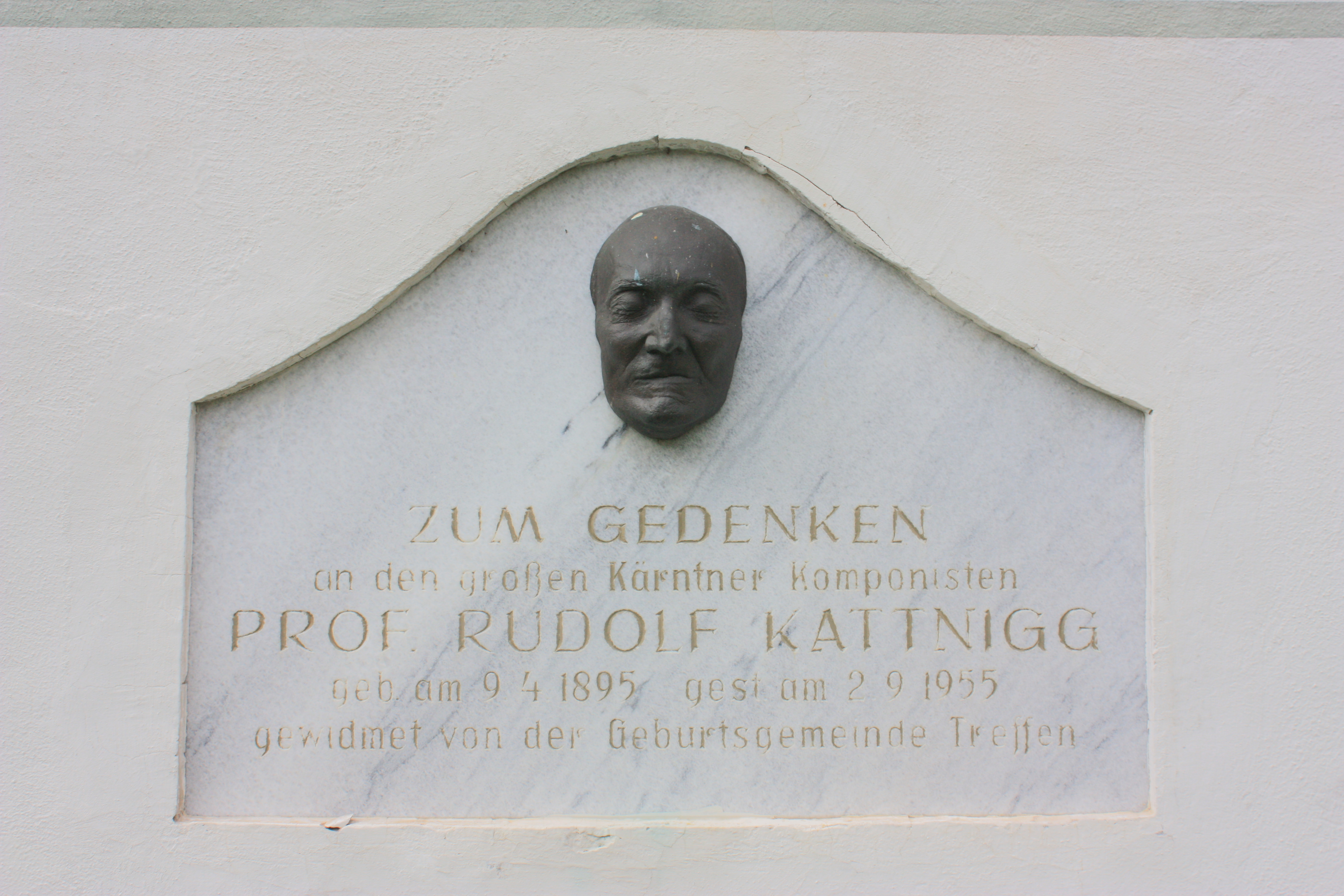 Parish church Saint Maximilian: Rudolf Kattnigg memorial Locality:Treffen Community:Treffen